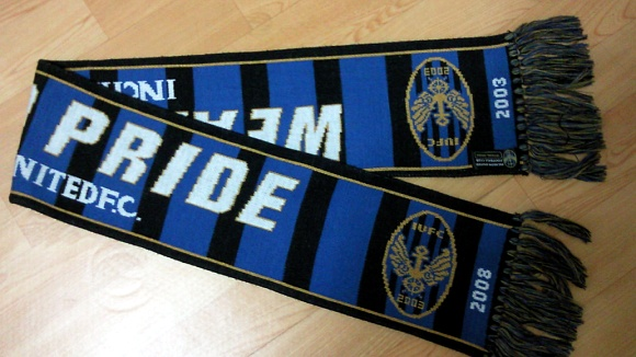 인천 유나이티드 머플러(스카프)